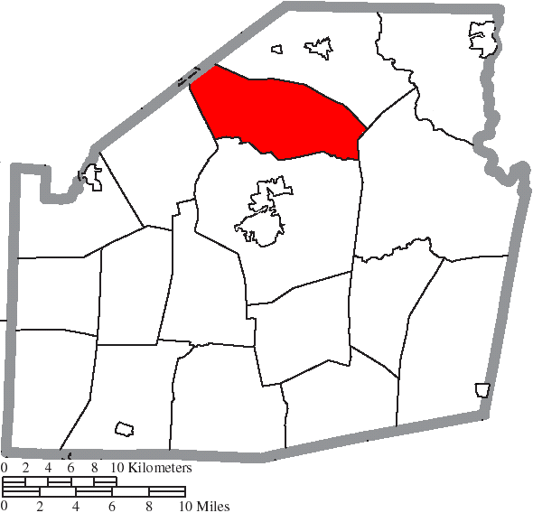 Map of the municipal and township boundaries of Highland County, Ohio, United States, as of the 2000 census, with the location of Penn Township highlighted. Township borders are shown only in unincorporated areas in order to differentiate incorporated and unincorporated areas more clearly.